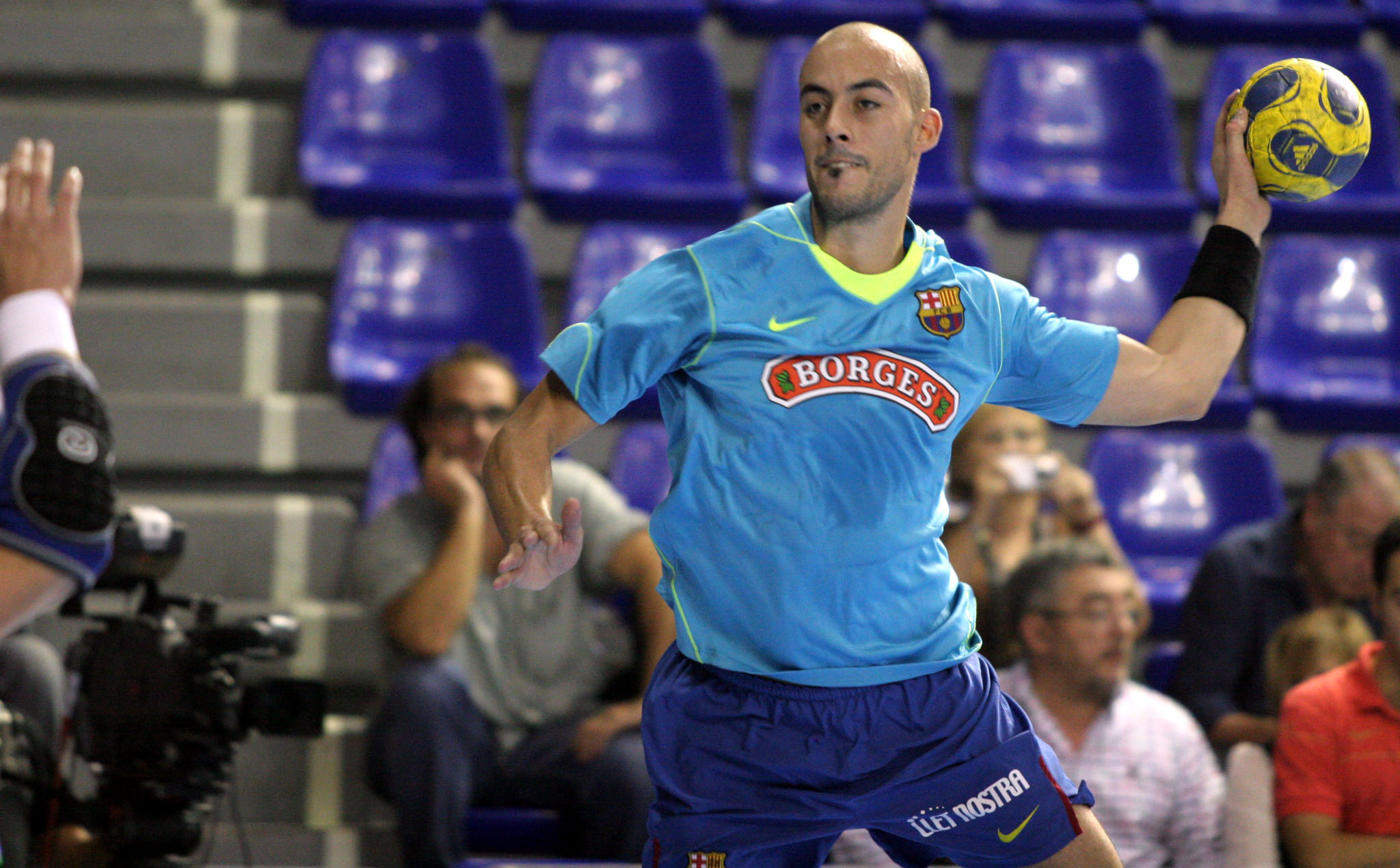 Albert Rocas, Spanish handball player on October 12th, 2008 in Barcelona (Palau Blaugrana) prior the Champions League game FC Barcelona Borges - H.C. Metalurg Skopje